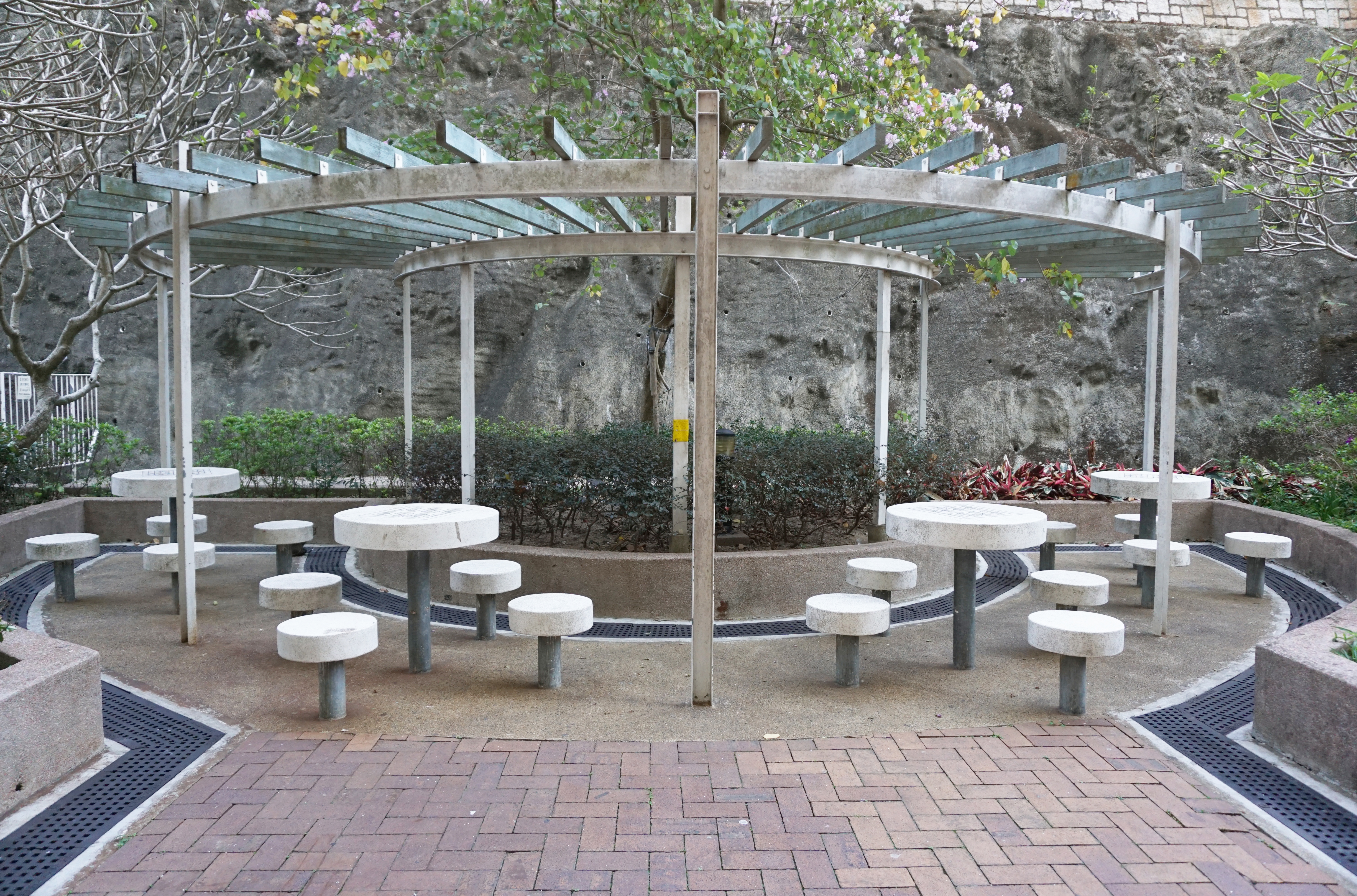 Shek Yam East Estate in Shek Yam, Hong Kong.